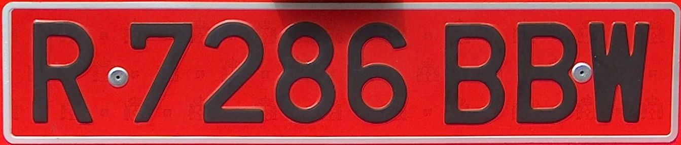 spanish license plate for trailers